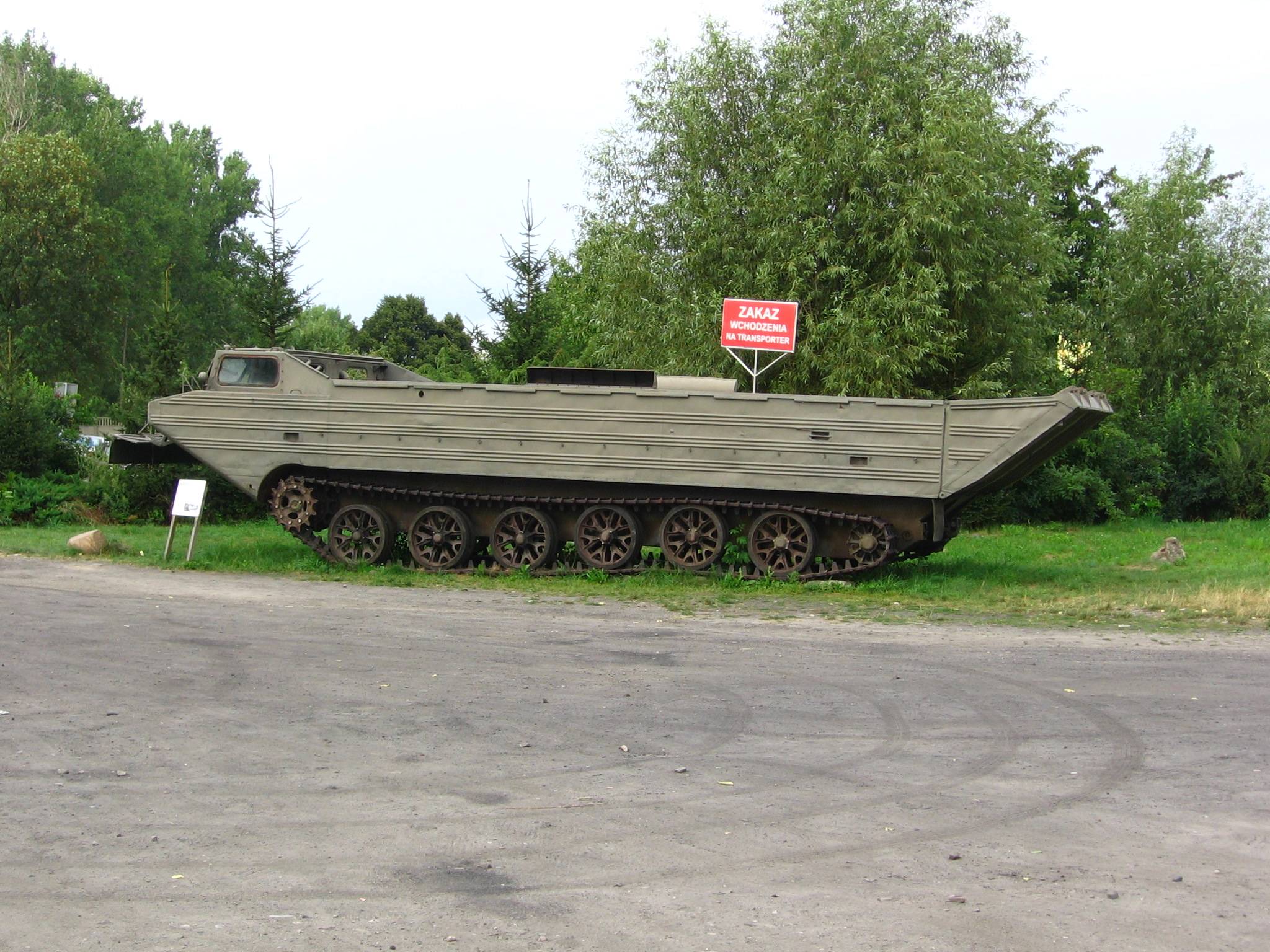 PTS amphibious transporter at the Międzyrzecz Fortification Region.